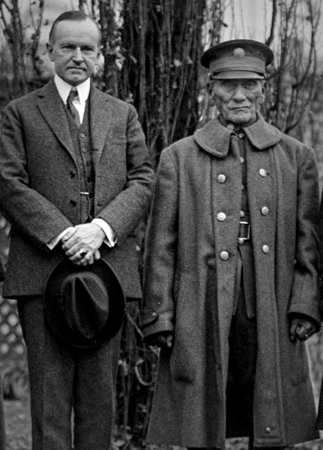 President Calvin Coolidge greets U.S. Army Sgt. I-See-O of the Kiowa in the Rose Garden of the White House in January 1925. Sgt. I-See-O was the last active duty Indian Scout in the U.S. Army.